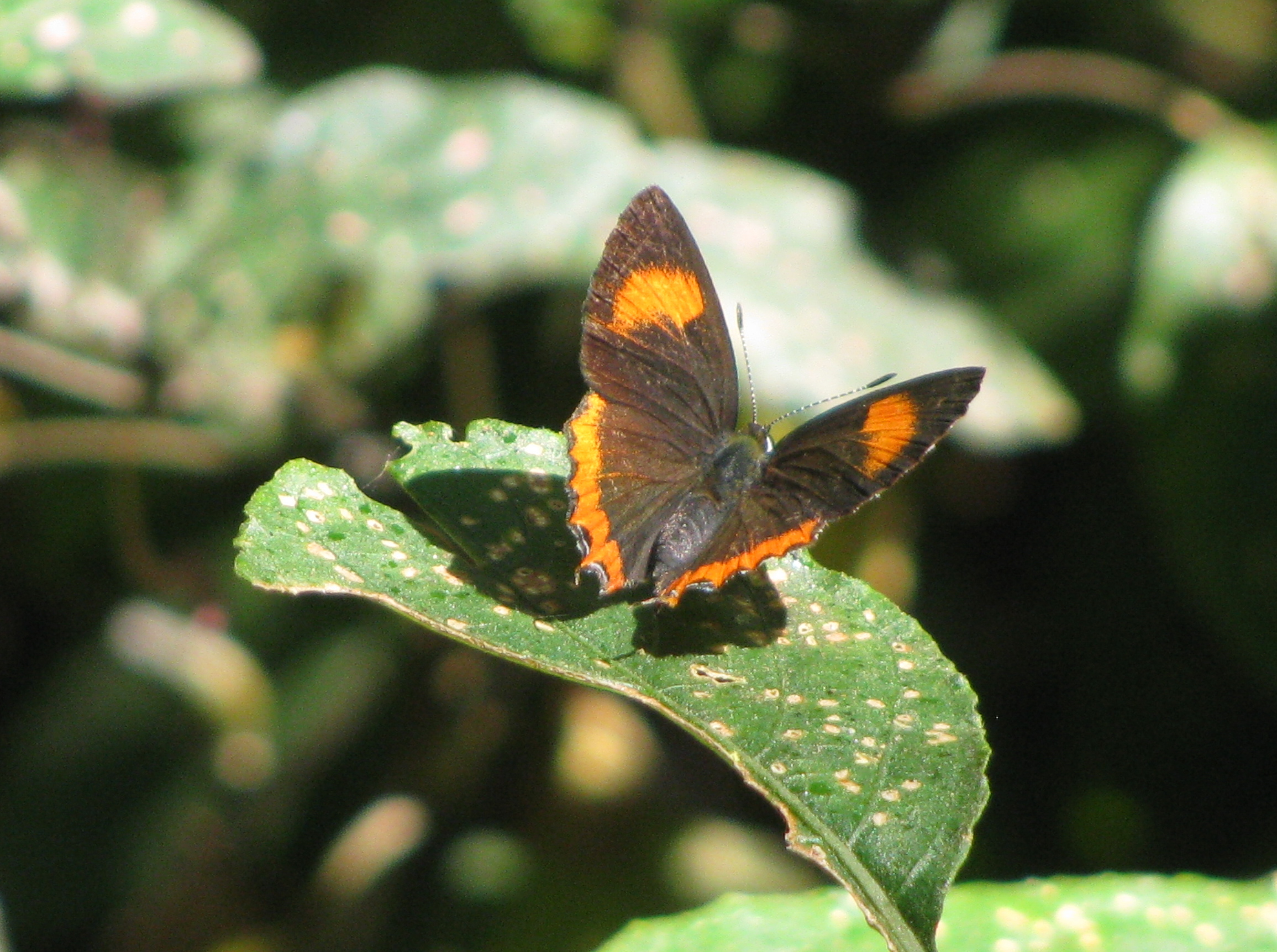 This picture was taken during the project Wiki Loves Butterfly in Mahananda Wildlife Sanctuary,West Bengal, India. Open wing position of Female Heliophorus epicles Godart, 1823 – Purple Sapphire